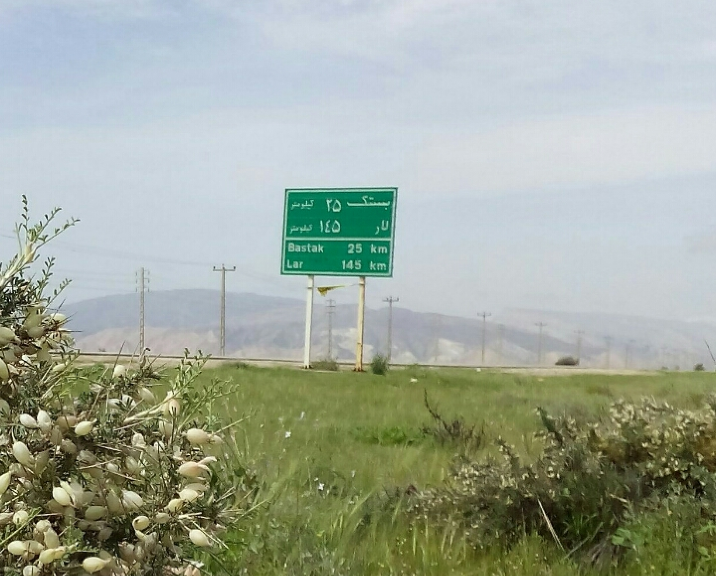 Sahra Kholus is a vast plain in Bastak city